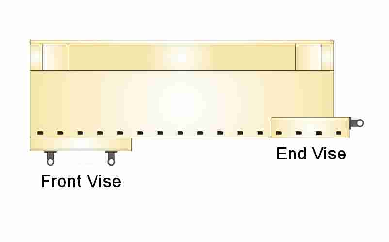 An overhead diagram of the positions of common workbench vises